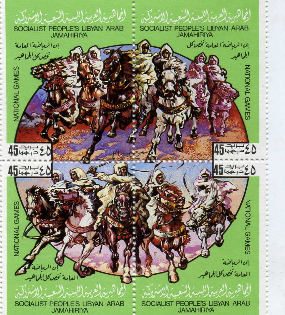 Libya 45 dirham block of four stamps - National Games with Horsemen.